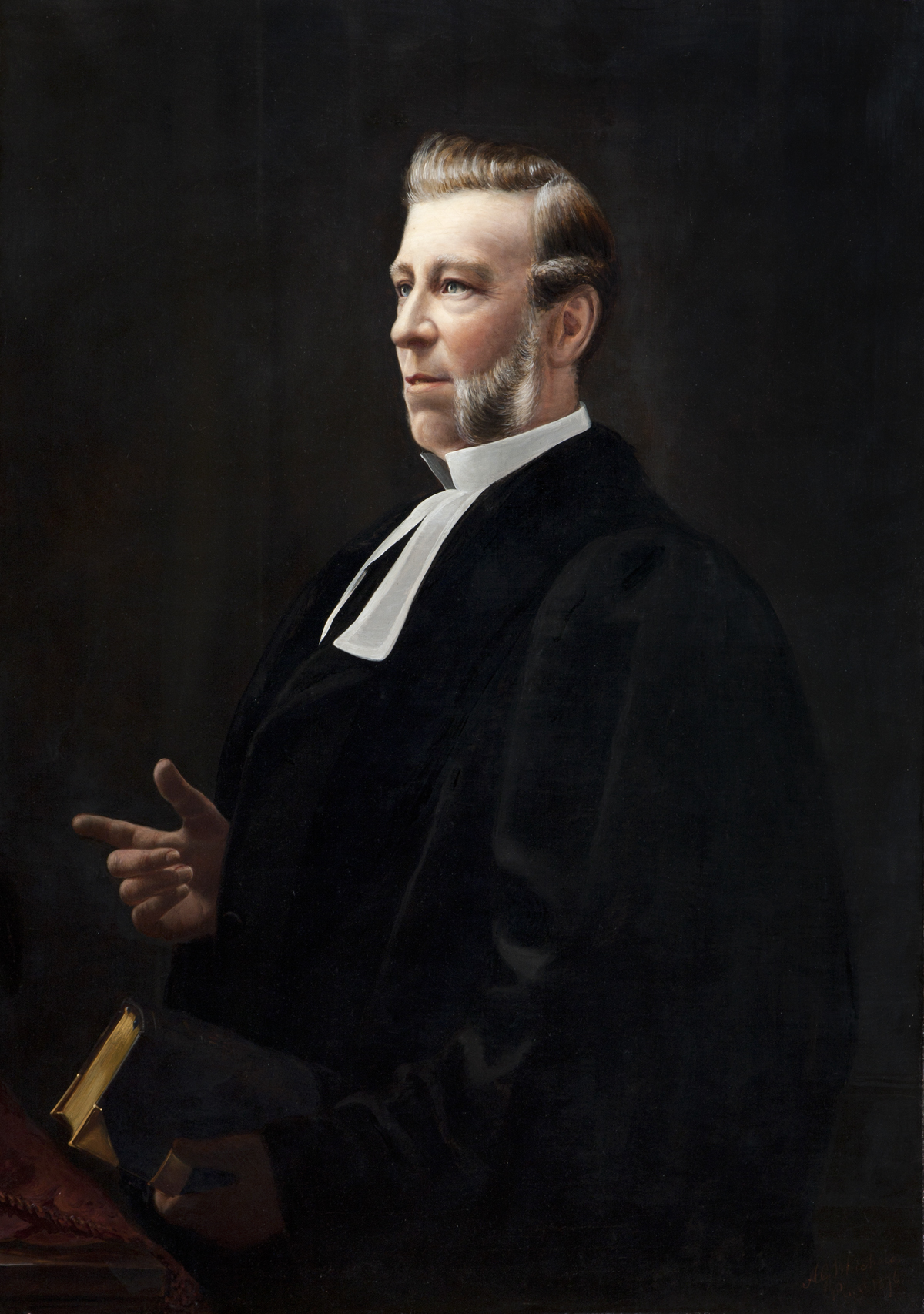 Portrait of Reverend Hugh Hanna (1824–1890); a Belfast based evangelical preacher. The painting itself was done by Augustus George Whichelo in 1876. It's dimensions are 111.9 x 86.4 cm. The painting is part of the collection owned by the National Museums Northern Ireland and is located in the Ulster Museum.